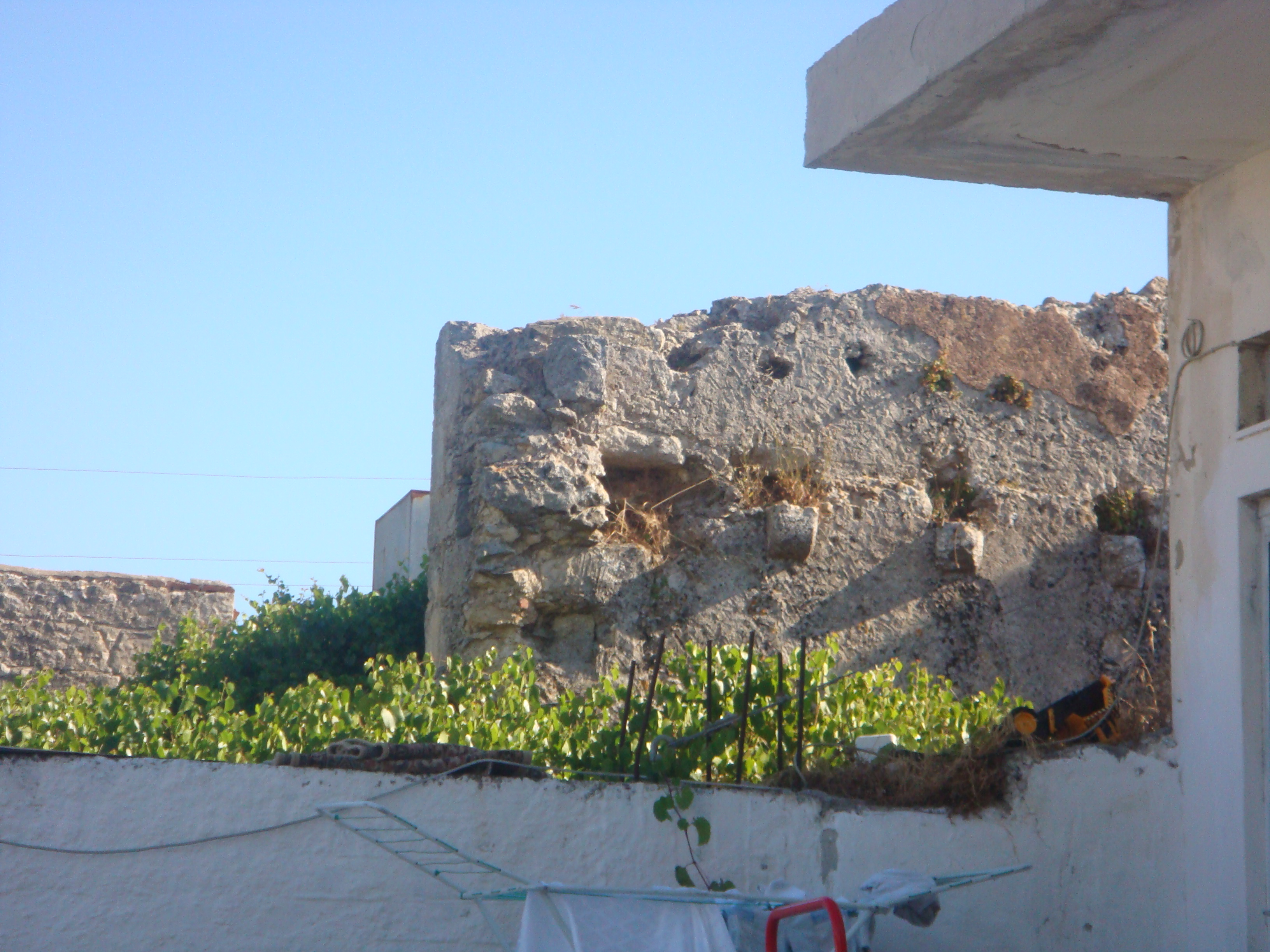 Remnants from Ali Djani's mosque, in Arhontiko, Iraklion Prefecture.